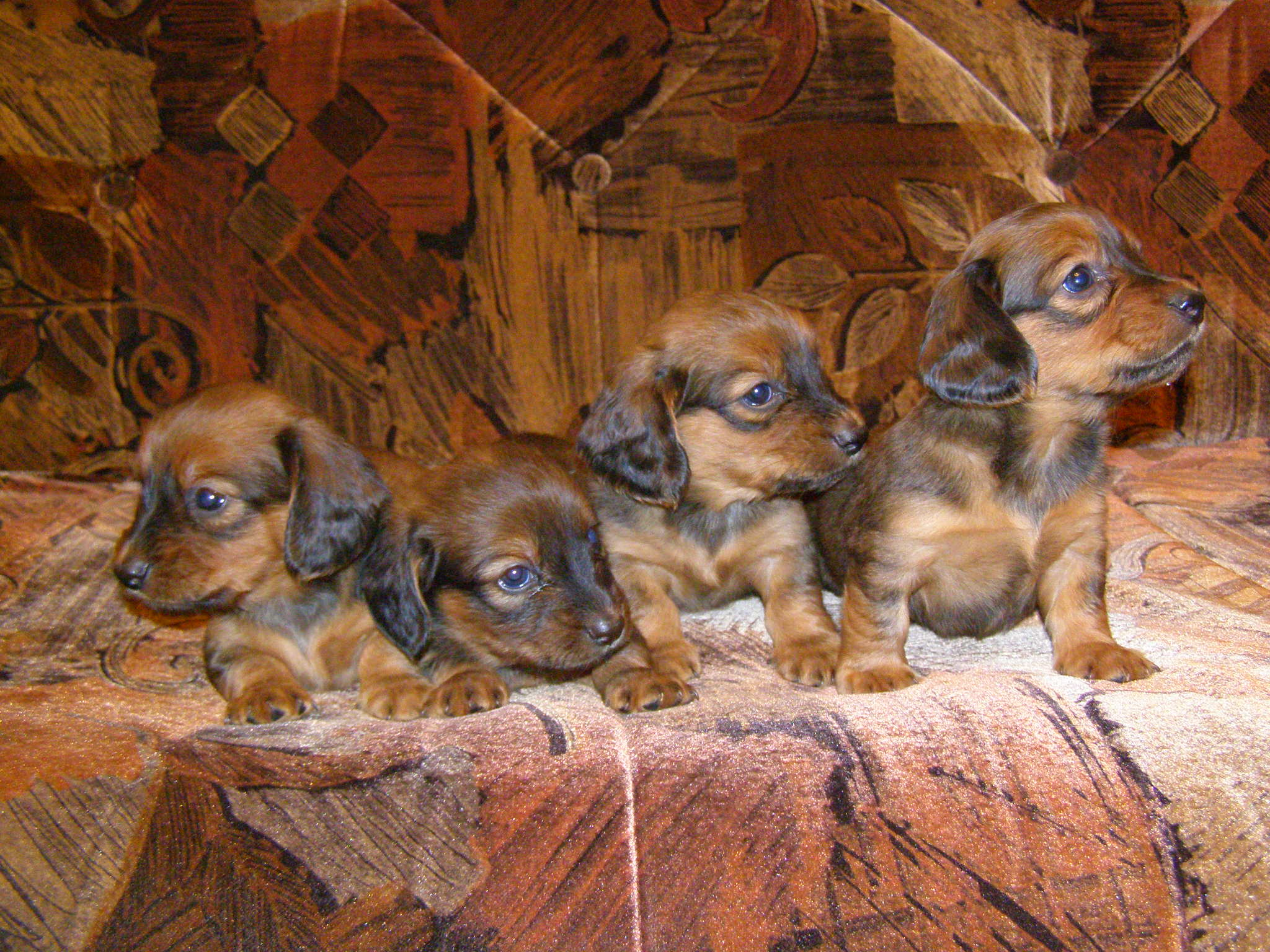 Long-haired dachshund puppies